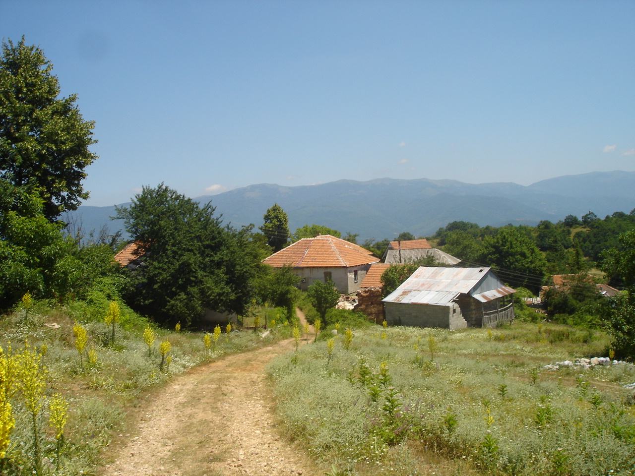 village of Crvena Voda in Debrca municipality, Macedonia